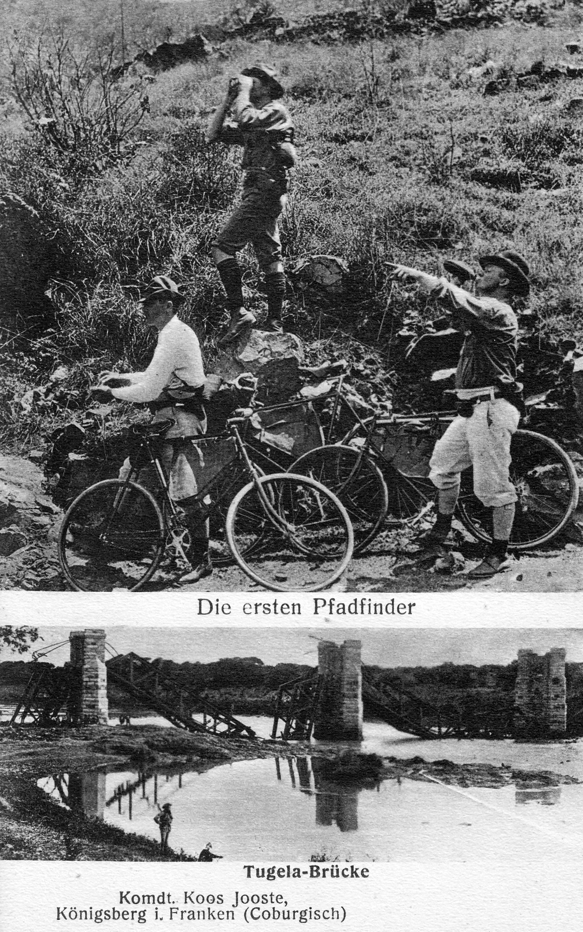 top: Three members of Boer Cyclists Report Corps Corps; bottom: Bridge over Tugela river destroyed by Boers in 1899